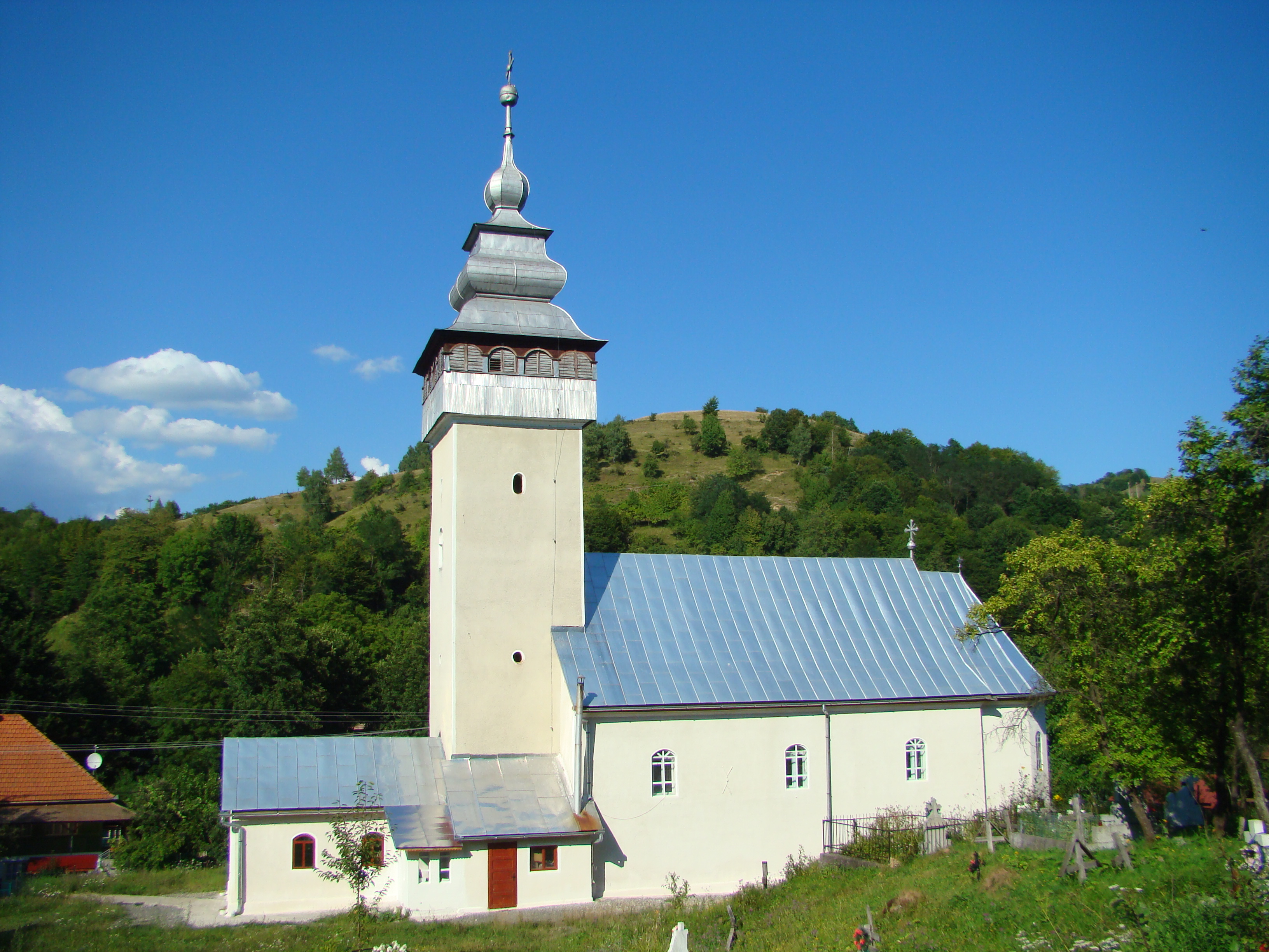 Church of the Transfiguration in Almașu Mare, Alba county, Romania